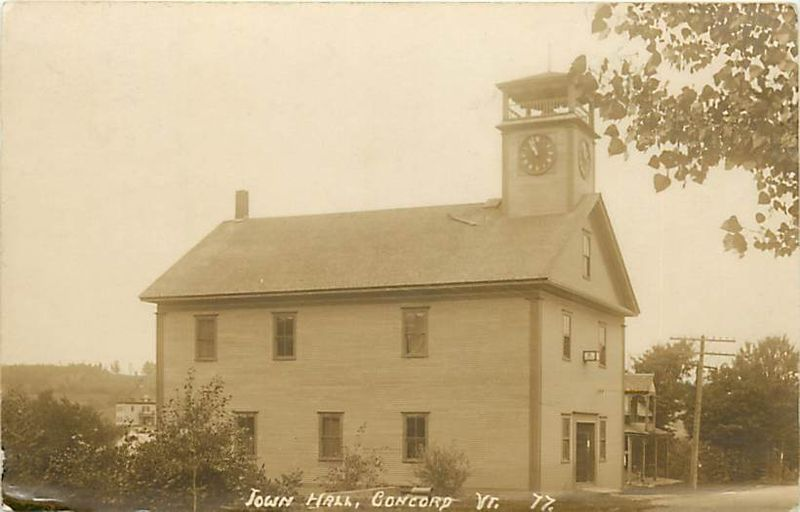 Concord Vt. town hall in 1877